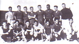 Picture of US Marocaine team of soccer in 1949